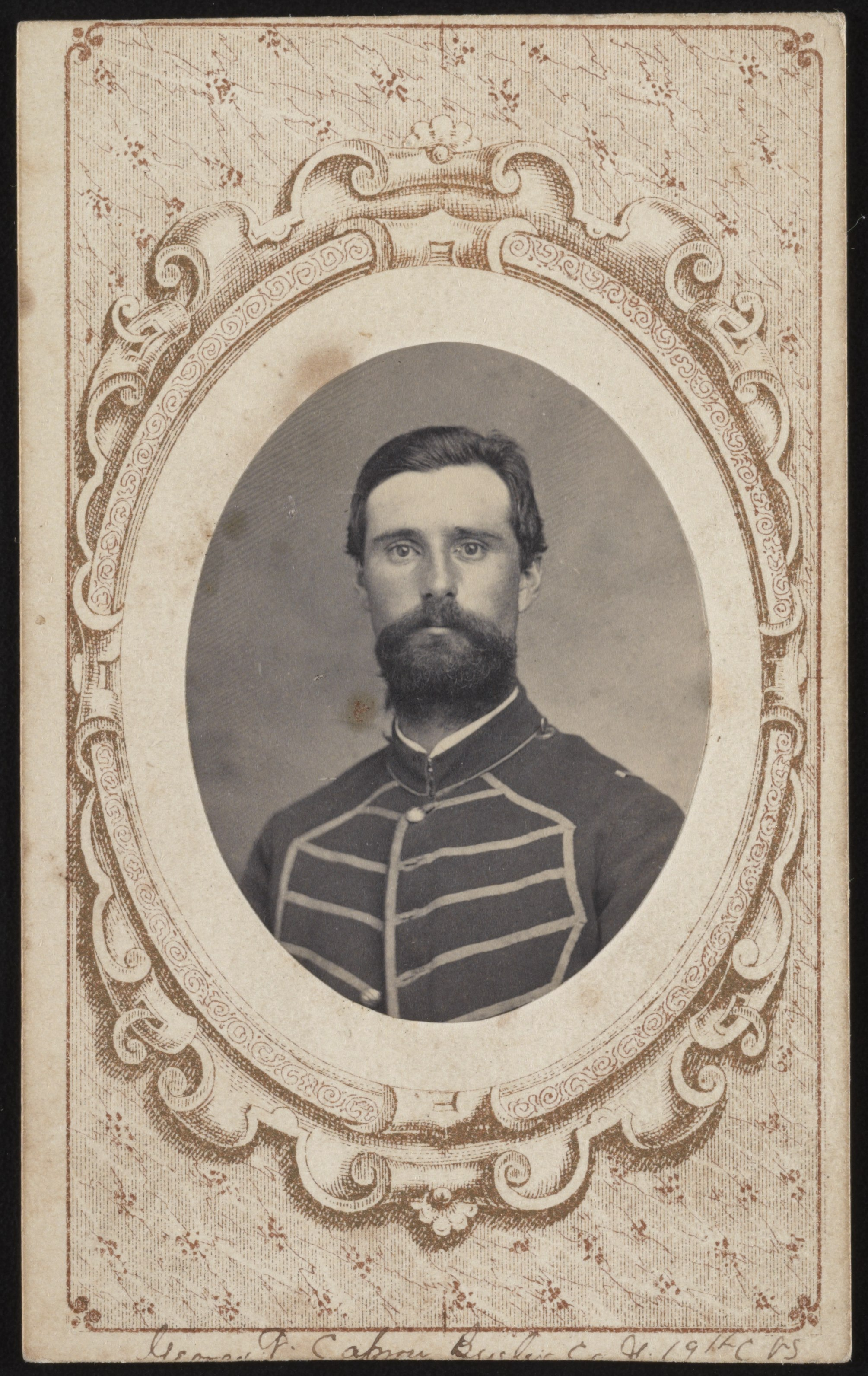 Title: Private George V. Capron, bugler, of Co. G, 2nd Connecticut Heavy Artillery Regiment in uniform Abstract/medium: 1 photograph : albumen print on card mount ; mount 10 x 6 cm (carte de visite format)